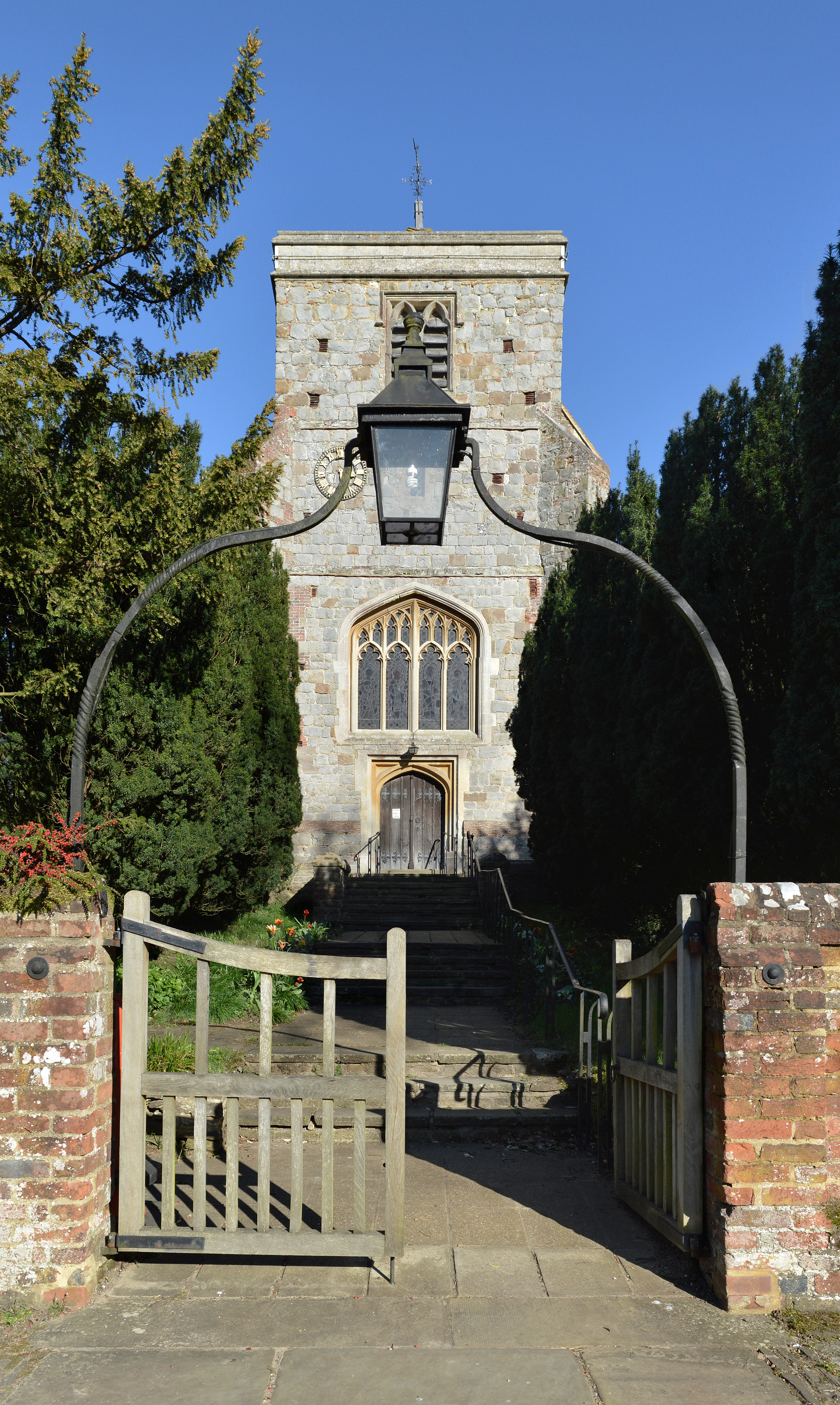 Church of St John the Baptist, Puttenham, Surrey Wikidata has entry Q17547423 with data related to this building.